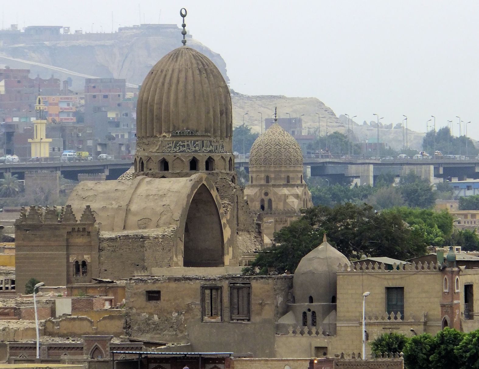 The mausoleum (partly ruined) of Princess Khawand Tughay or Umm Anuk, wife of Sultan al-Nasir Muhammad, buried here in 1348. The remains include the large dome seen here and a large vaulted iwan next to it. There used to be another, smaller, dome on the other side of the iwan, but that has disappeared. The other prominent dome in the background is that of the Tomb of al-Ashraf Azrumuk, dating to 1504.